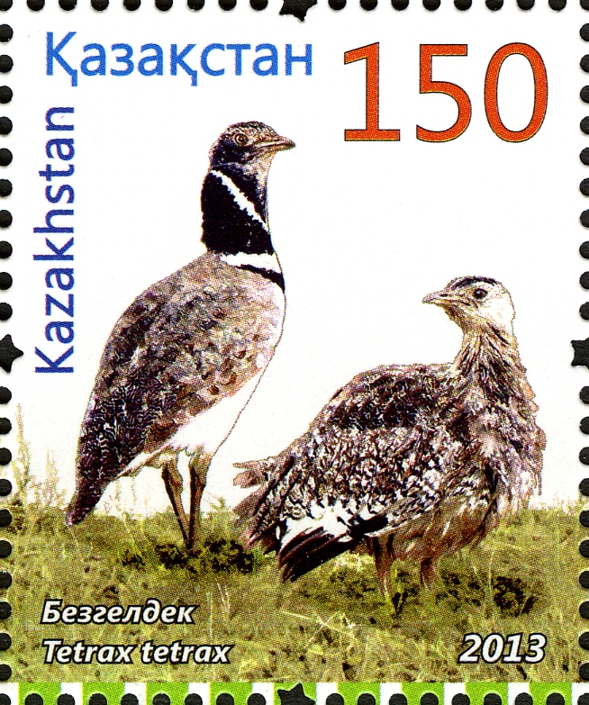 Stamps of Kazakhstan, 2013